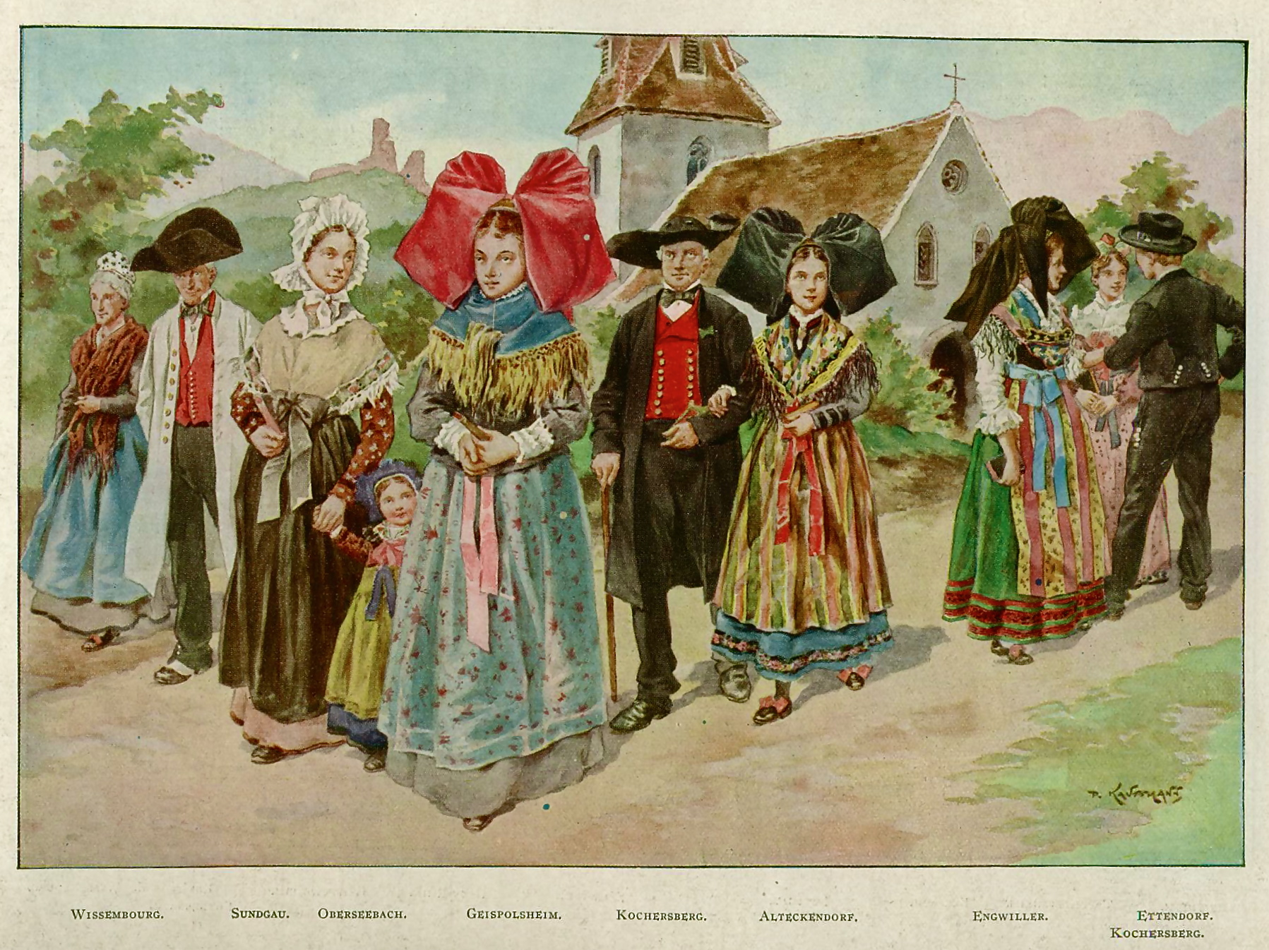 traditional costumes of Alsace